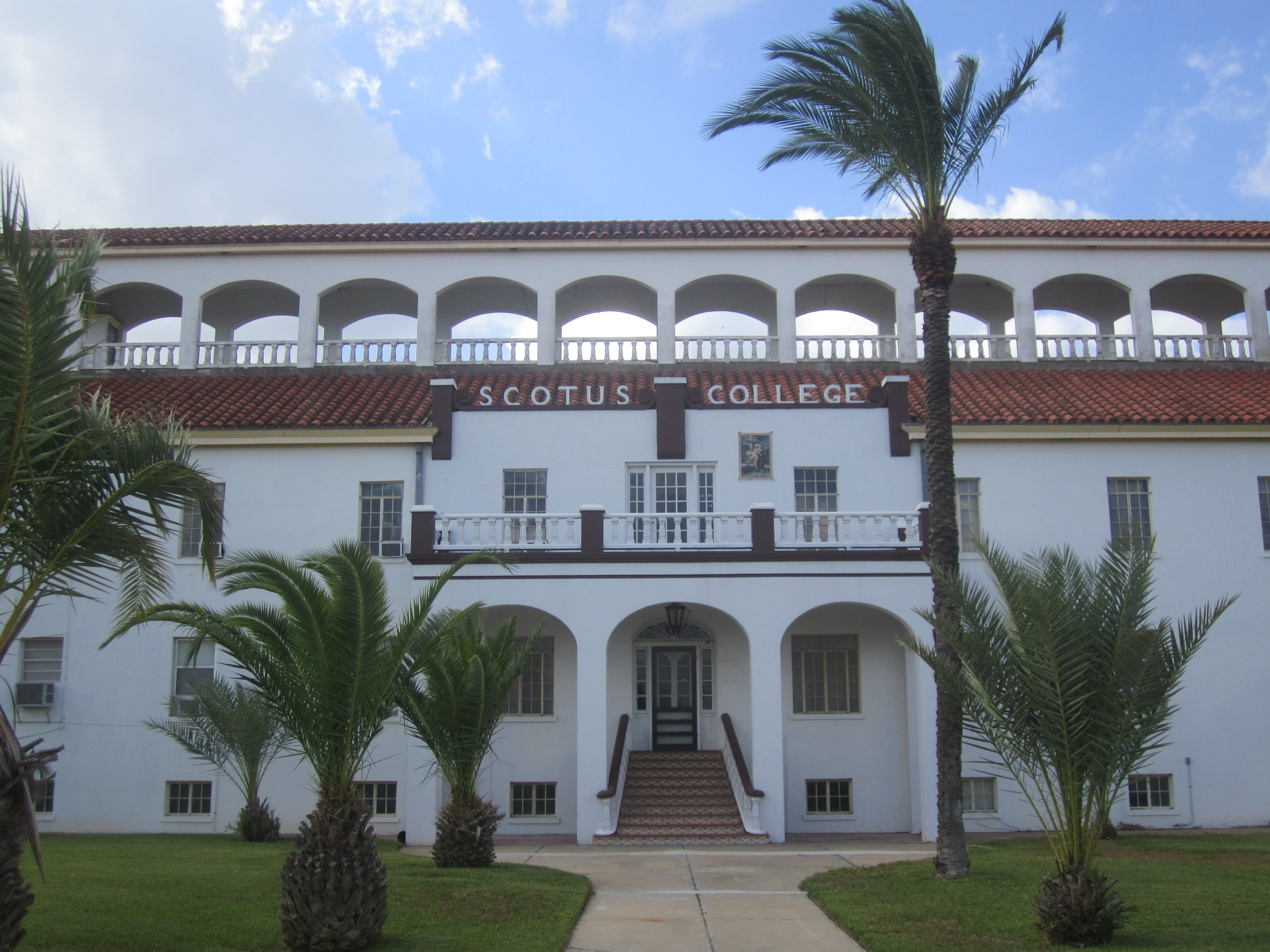 I took photo of Scotus College, a Franciscan seminary in Hebbronville, TX, with a Canon camera.